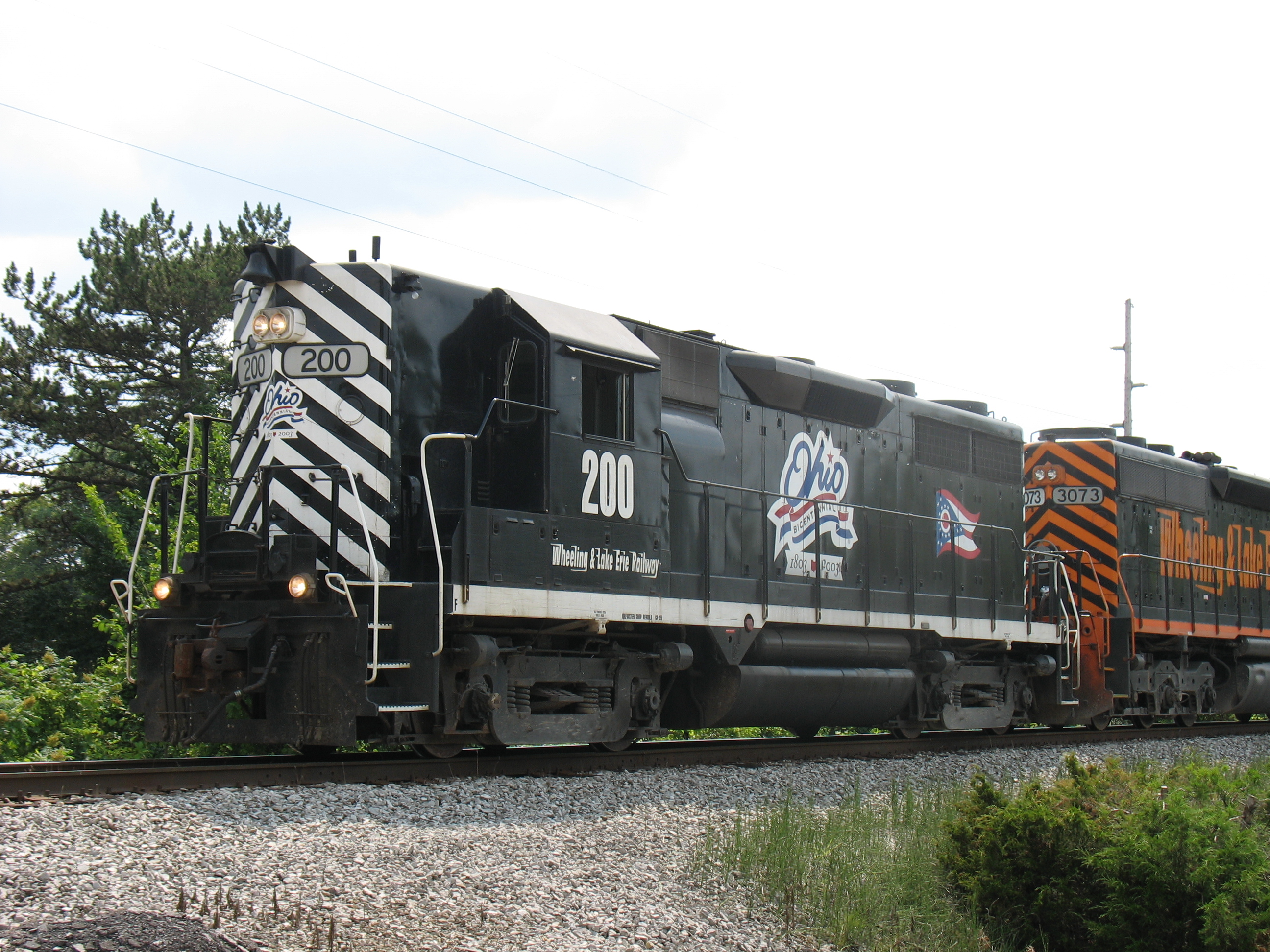 Locomotive WE #200, commemorating the 200th anniversary of Ohio statehood in 2003, taken July 8th, 2006 near Monroeville. Trailing locomotive #3073 is the normal color scheme of most WE locomotives.